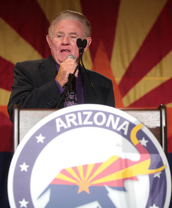 Mine Inspector Joe Hart speaking at the Arizona Republican Party 2014 election victory party at the Hyatt Regency in Phoenix, Arizona